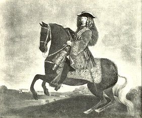 Prince Charles of Denmark (Prins Carl) on horse - he had a stud farm, first at Jægerspris Castle and from 1726 and until his death in 1729 at Vemmetofte